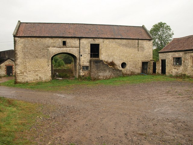 Barn, Welton At Manor Farm, by the footpath from Norton Radstock Greenway to Millard's Hill. "C18, possibly earlier. Two builds. Two storeys, limestone rubble with pantile roof and coped verges with saddle-stones. Large segmental headed through archway to left of centre with small window over with chamfered reveals" .